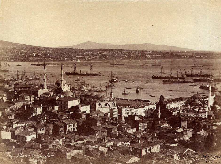 Views of Constantinople and surroundings. Albumen print. Circa 25 x 19 cm